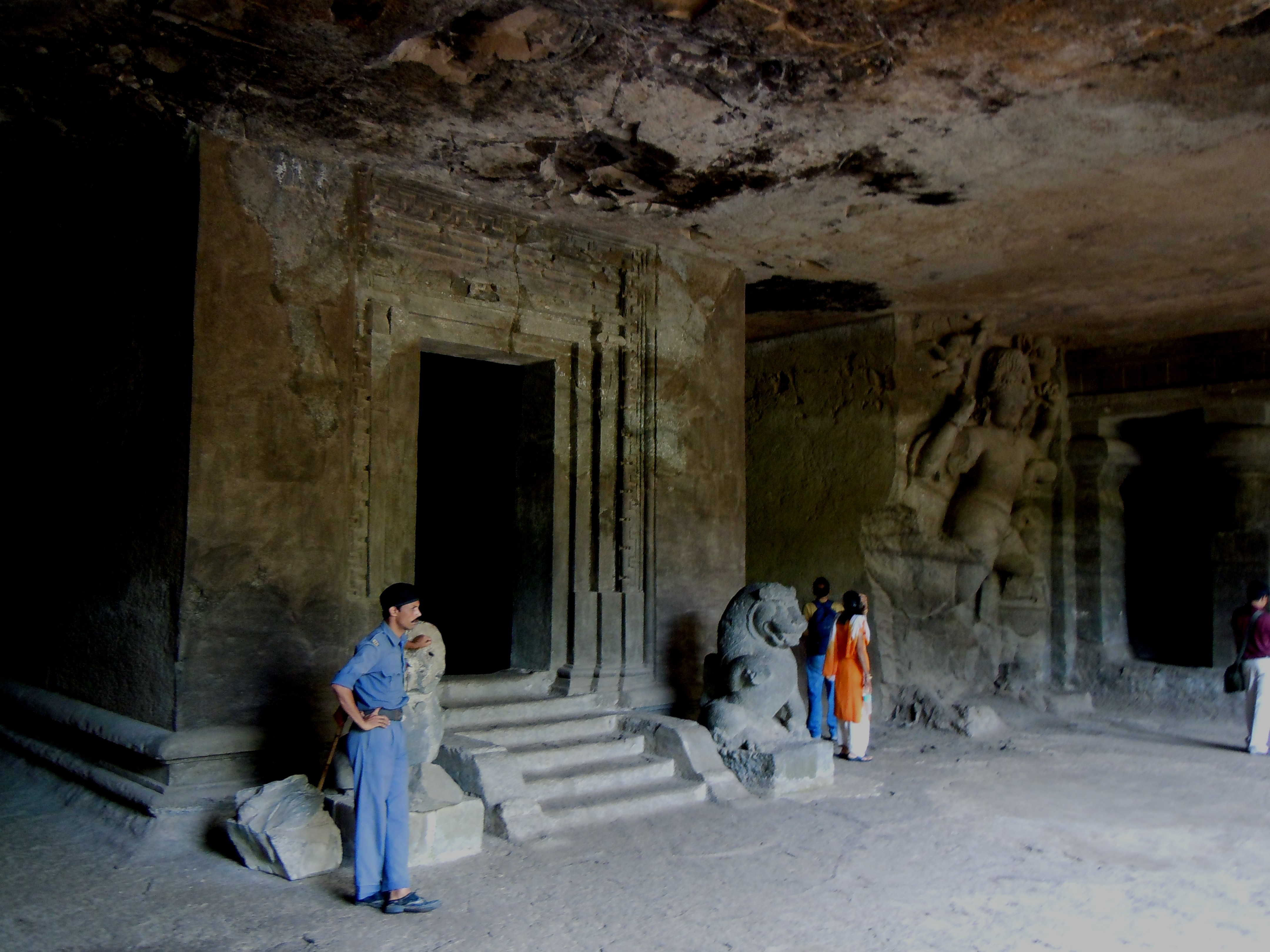 Grottes d'Elephanta - Sanctuaire de la grotte principale